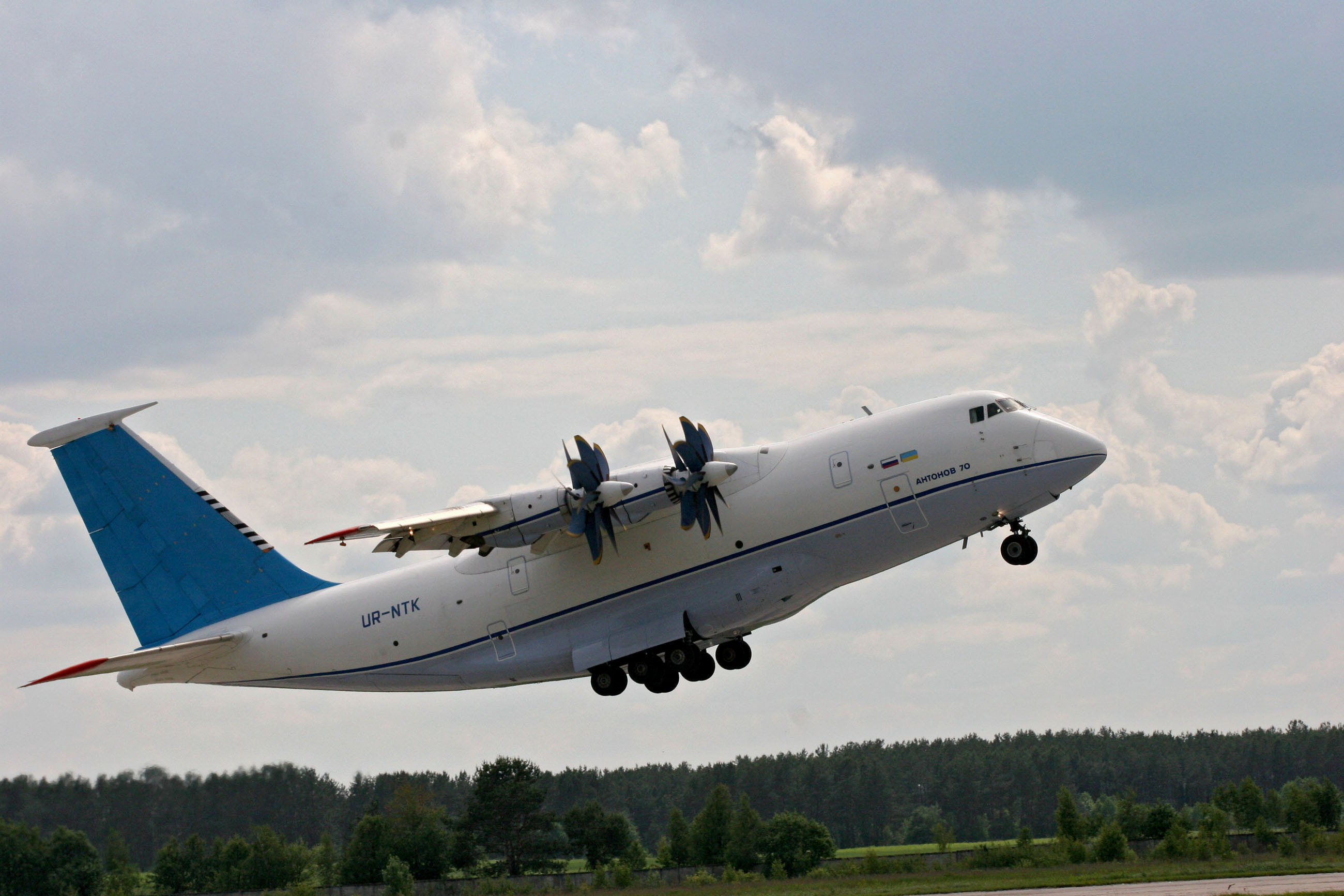 An Antonov An-70 at takeoff.